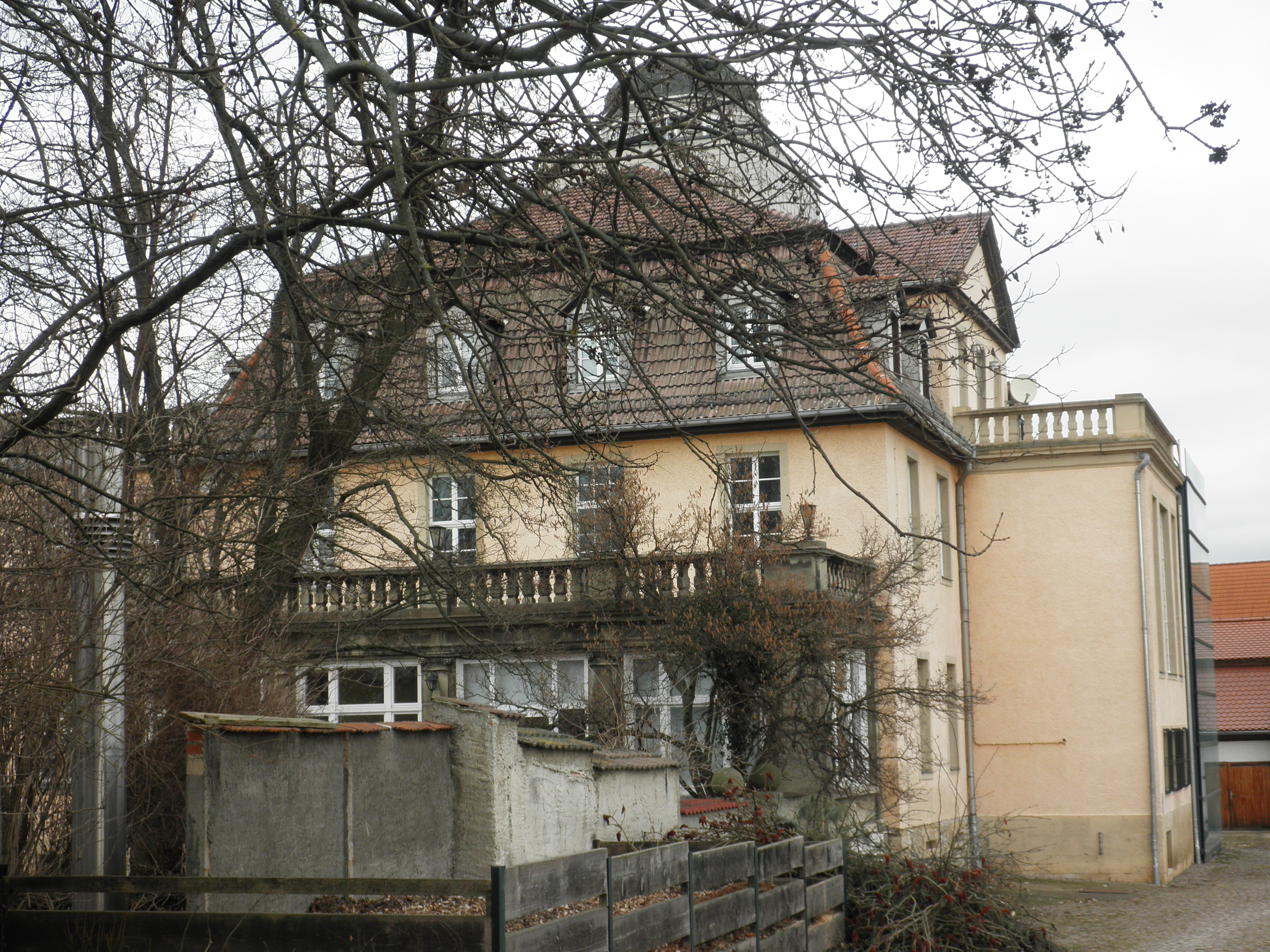 Manor House in Guthmannshausen in Thuringia